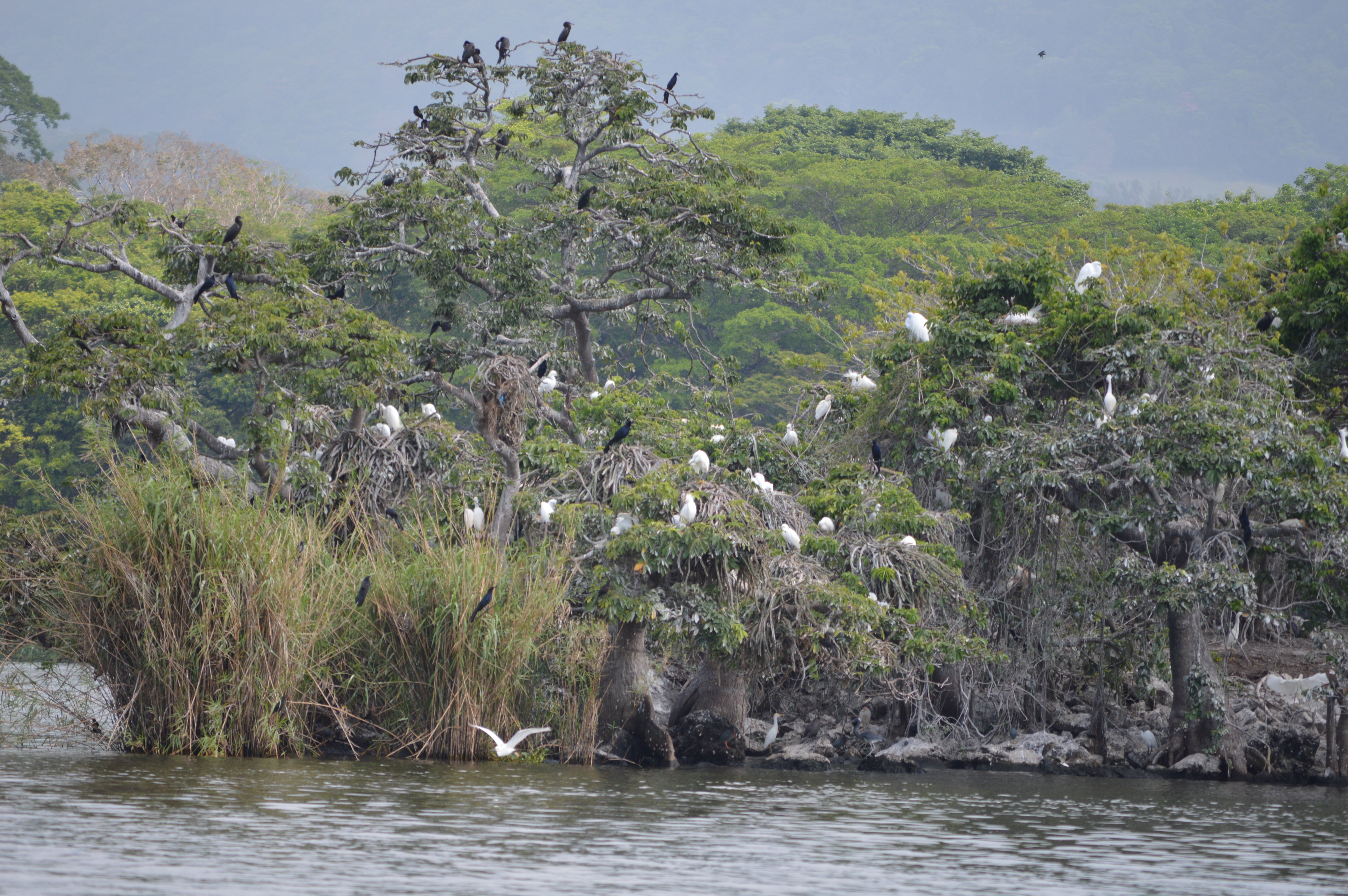 Stork Island in Lake Catemaco, Veracruz, Mexico